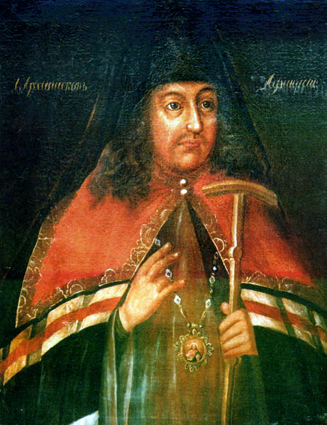 Bishop Afanasy Lubimov, Parsuna